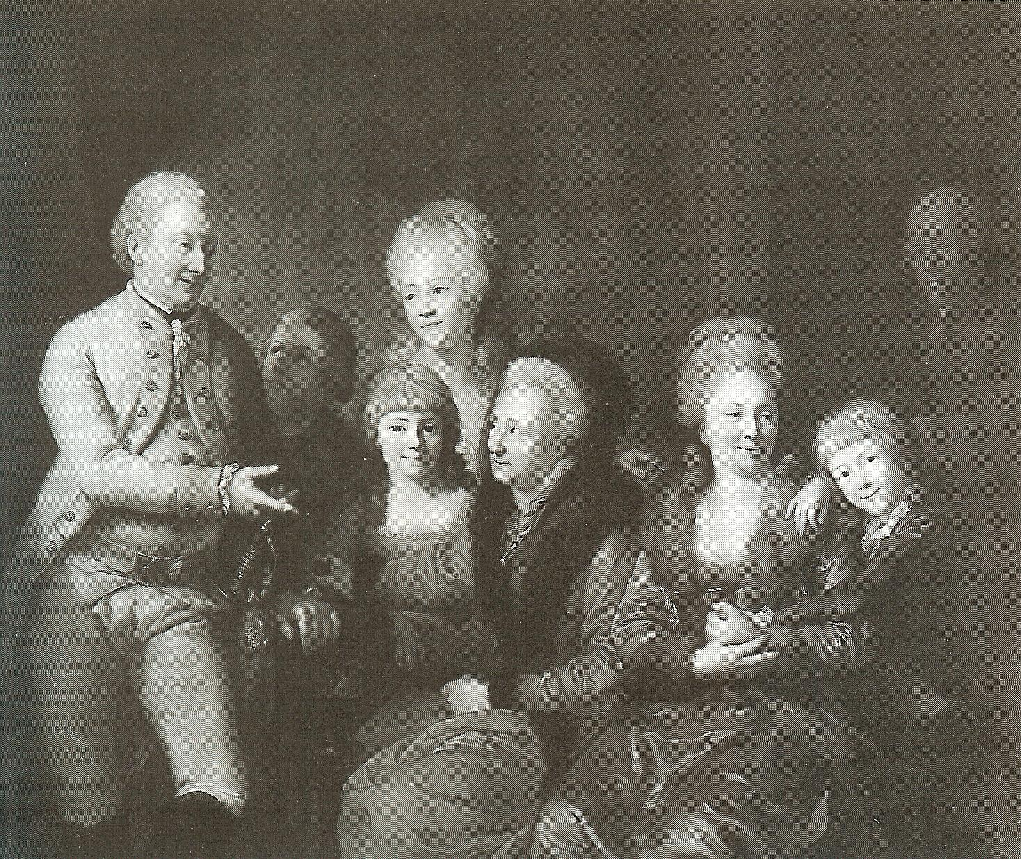 The family of Rittmeister Wilhelm Ludwig von Stieglitz (1736-1796), his mother, wife, and children